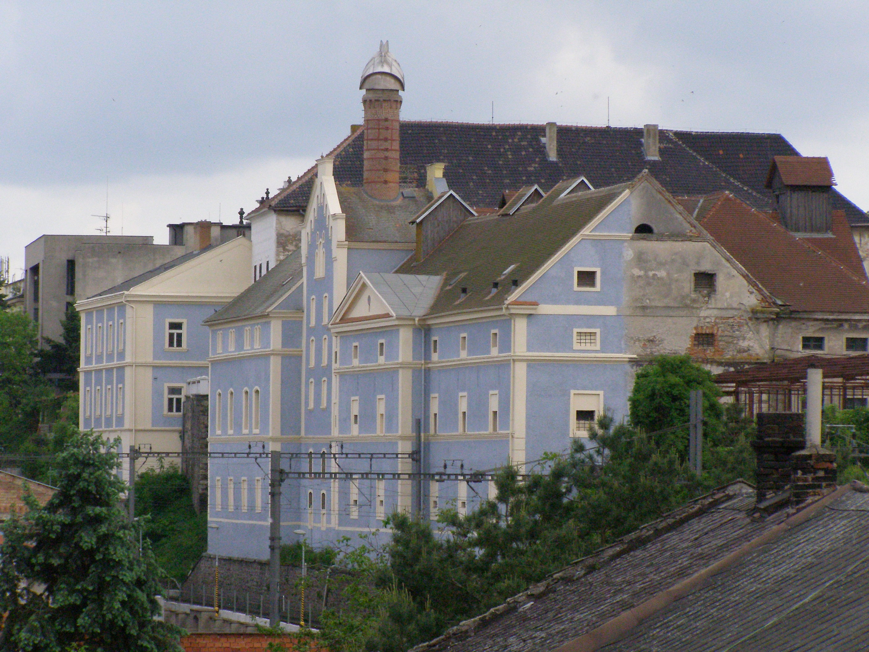 The former castle brewery in Kolín (the façade was reconstructed from the most visible side and the rest stayed for a while unreconstructed which resembled so called Potemkin village)